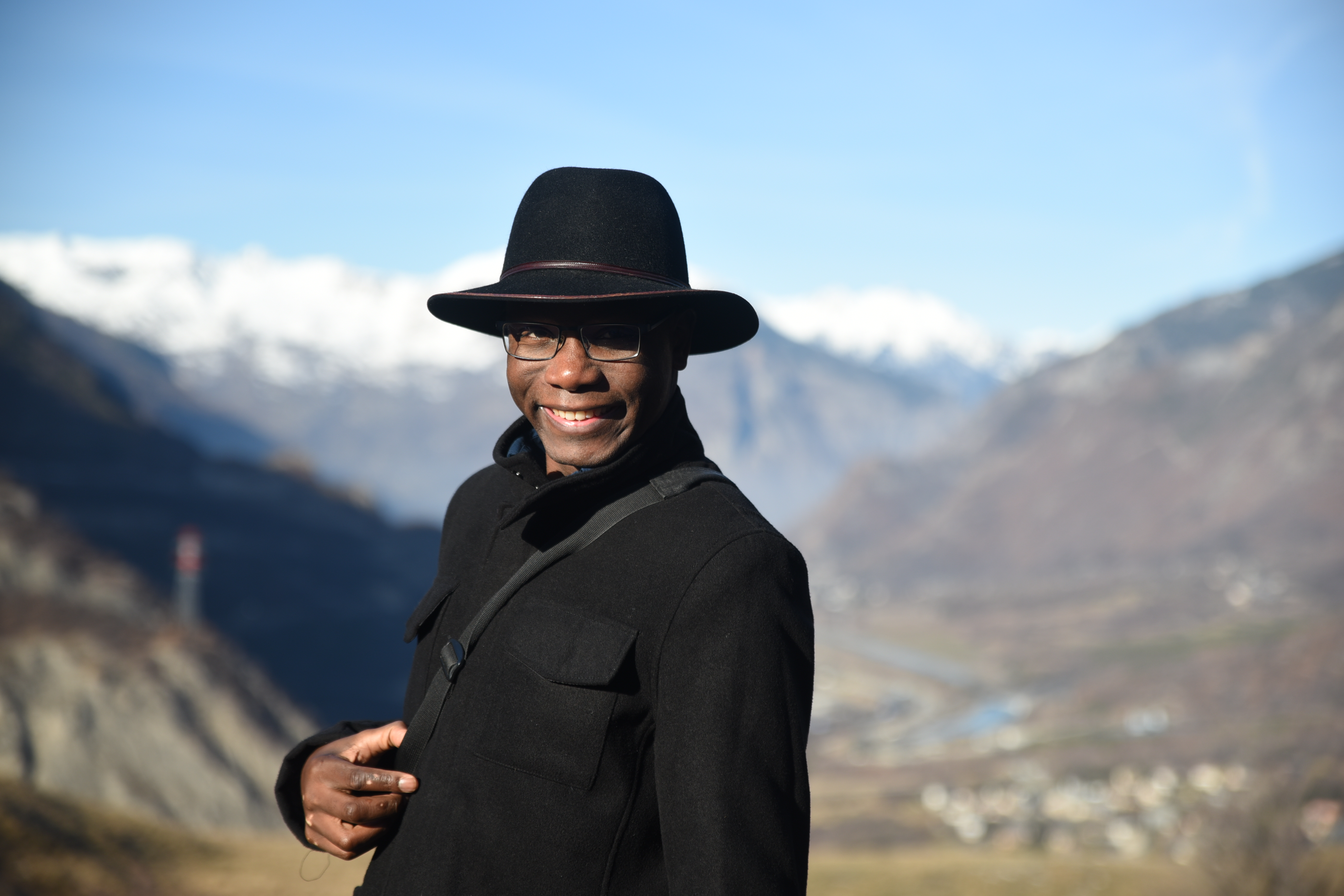 Buata Malela, associate-professor, posing in the middle of the Alps in December, full winter.